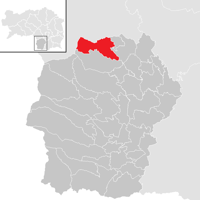 District Deutschlandsberg, Styria, Austria